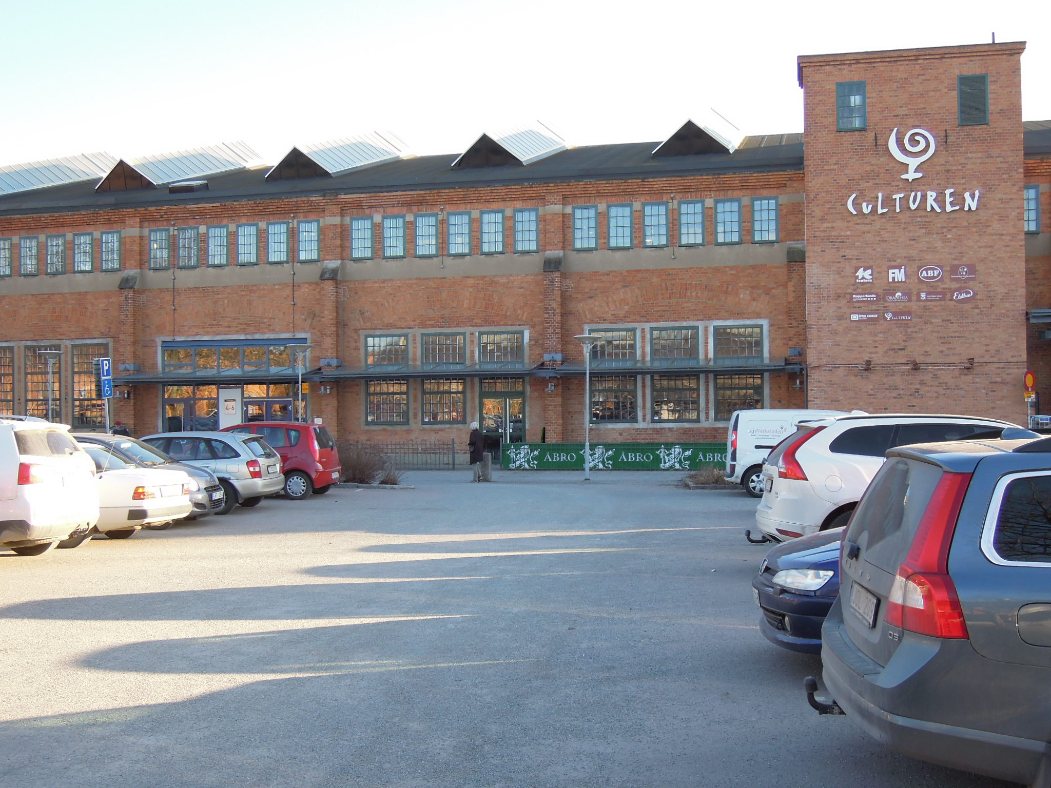 Culturen, cultural building in Kopparlunden, Västerås, Sweden. Earlier built as Emaus workshop by Asea (later renamed to ABB). March 2015.